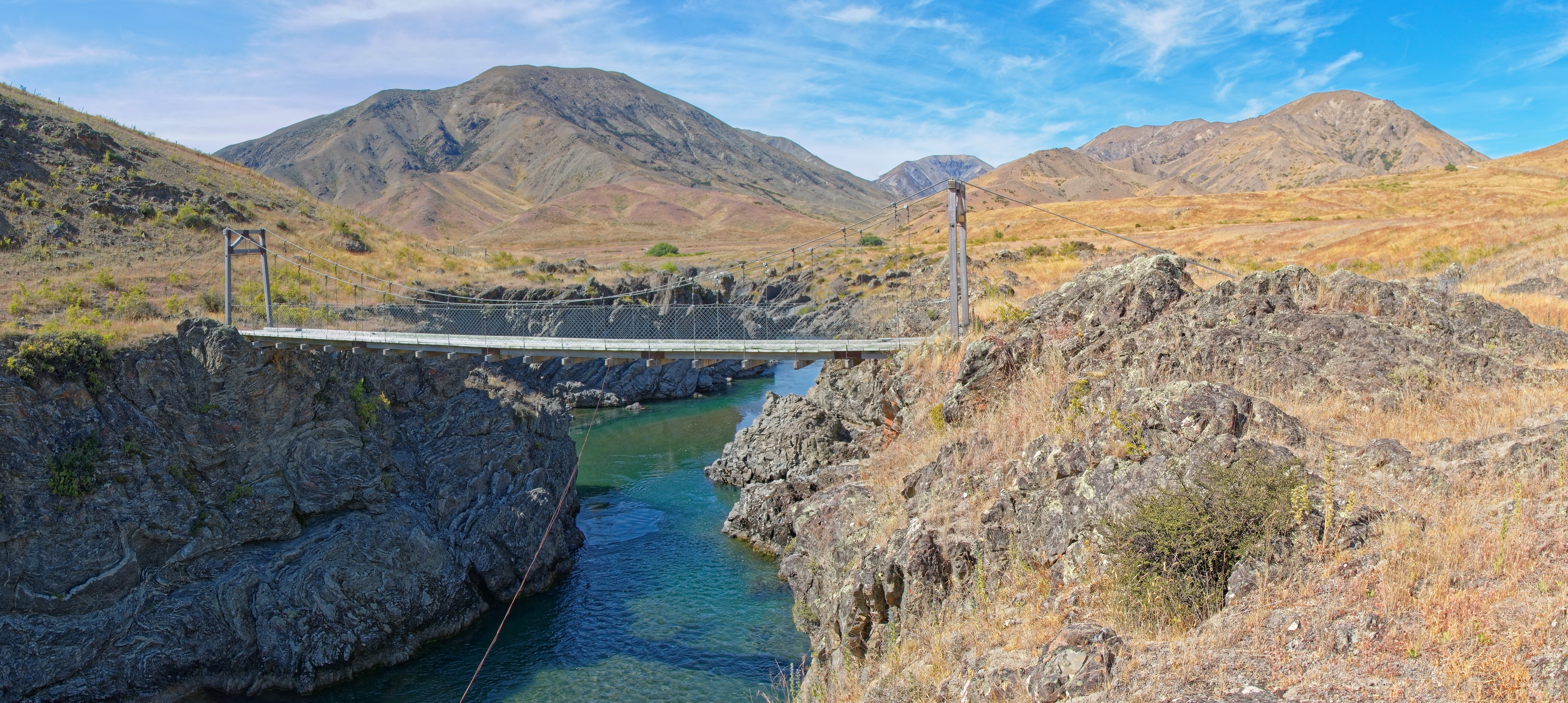 Student Bridge at Molesworth NZ - Designed by Canterbury University students in 1944